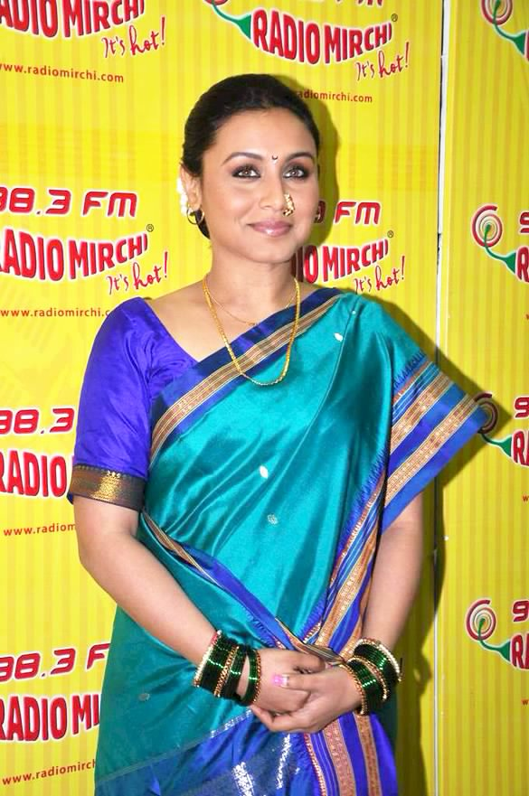 Rani Mukerji promoting 'Aiyyaa' on 98.3 FM Radio Mirchi